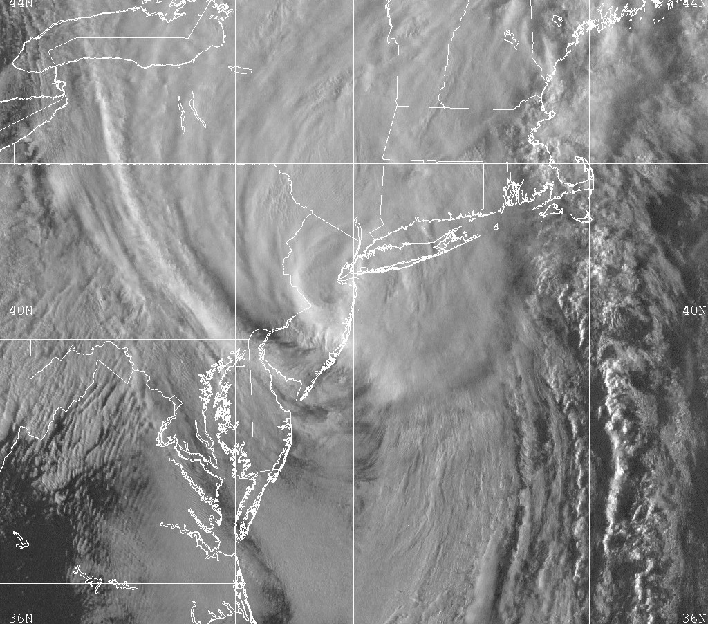 Tropical Storm Floyd near landfall in southern New York